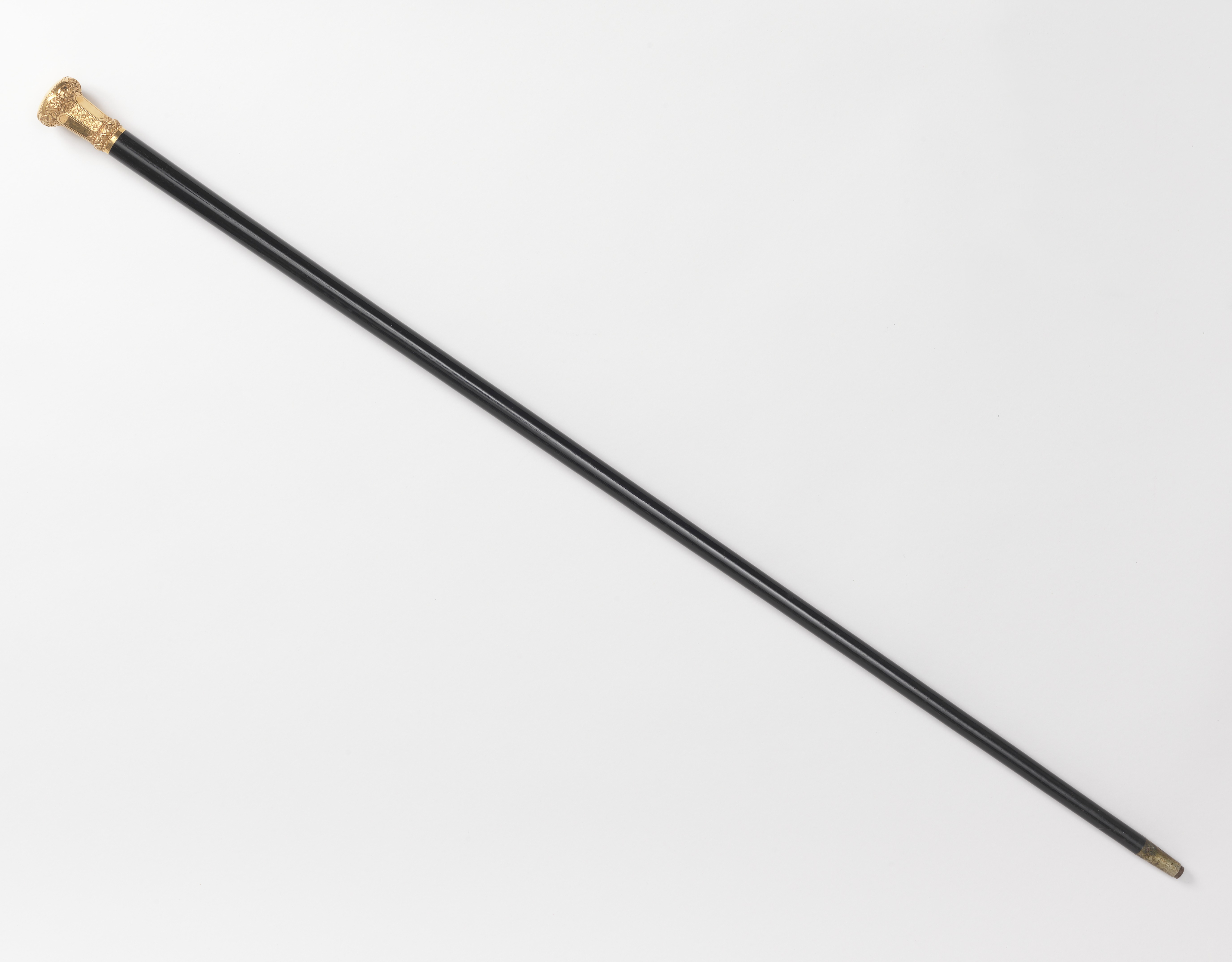 Black Bakelite walking stick; gilded knob with panels of foliate and floral decoration.